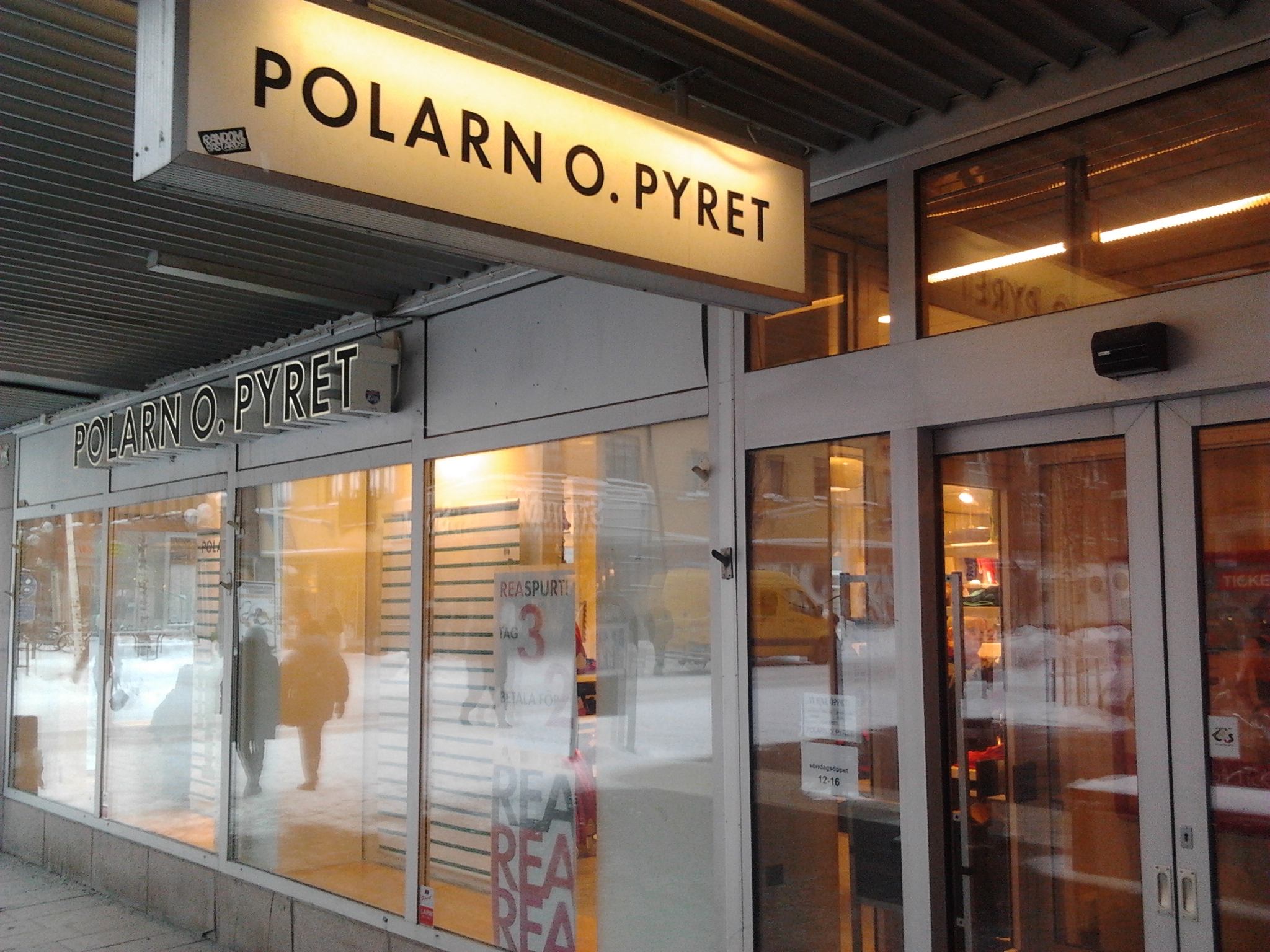 Children's clothing shop "Polarn O. Pyret" in Umeå, Sweden.